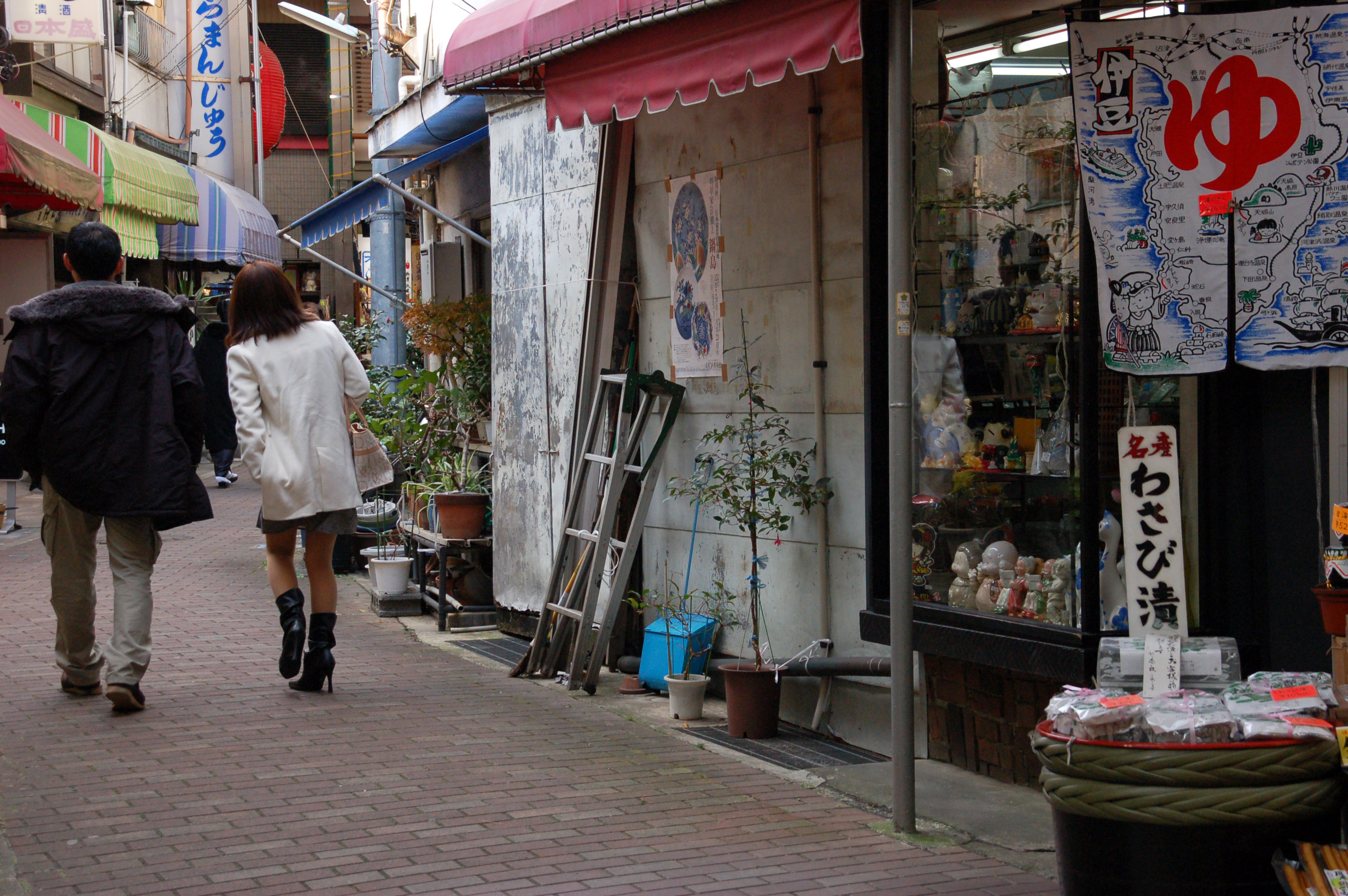 A street in Atami, Shizuoka. Nikon D50